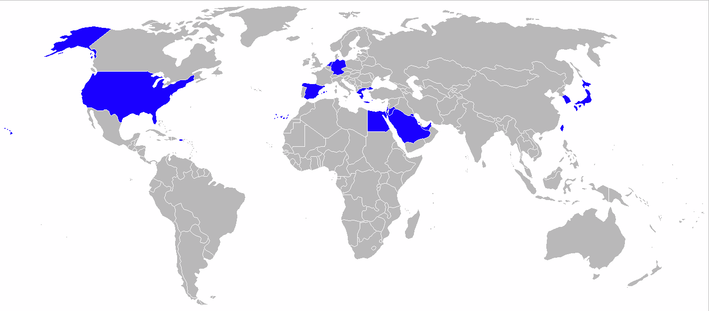 MIM-104 Patriot Operators 2010 (current in blue - former in red)